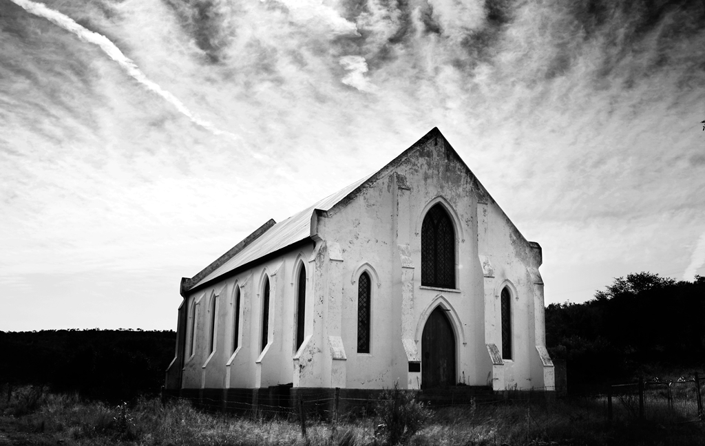 1874 Dutch Reformed Church, Glen Lynden, Bedford District This media shows a South African Protected Site with SAHRA file reference 9/2/011/0003/002.